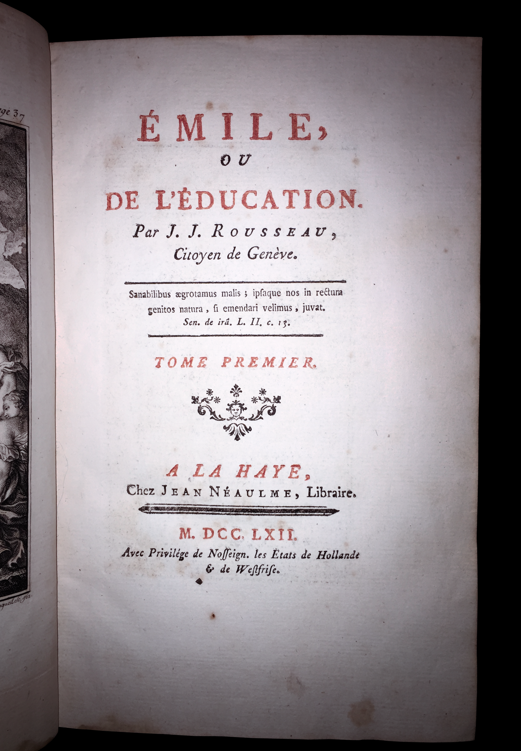 First Edition of Emile